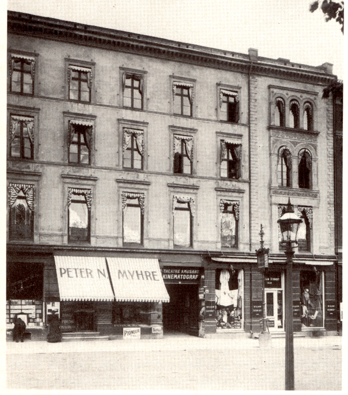 Karl Johans gate 41 in Oslo, Norway, around 1905. Architect Asmus Lenschow, construction year approx 1845. Cammermeyer book store, Peter N. Myhre tobacconist, cloth store William Schmidt Engelsk Magazin. Through the gateway access to Theatre Amusant, one of the first regular cinemas in Oslo, established 1904.